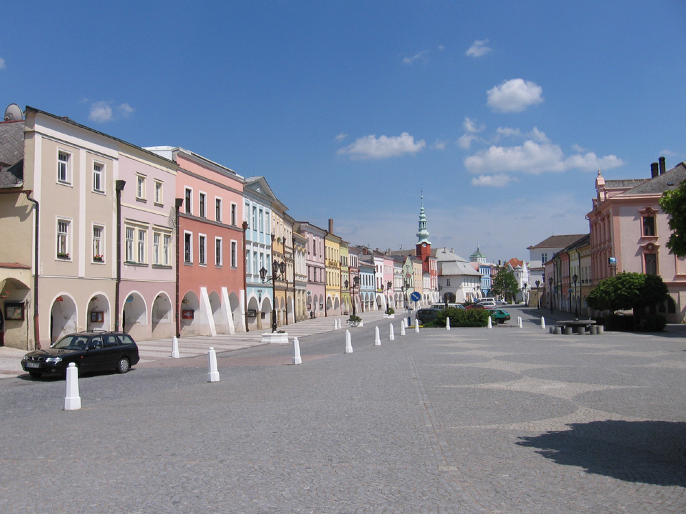 Peace Square in Svitavy, Czech Republic